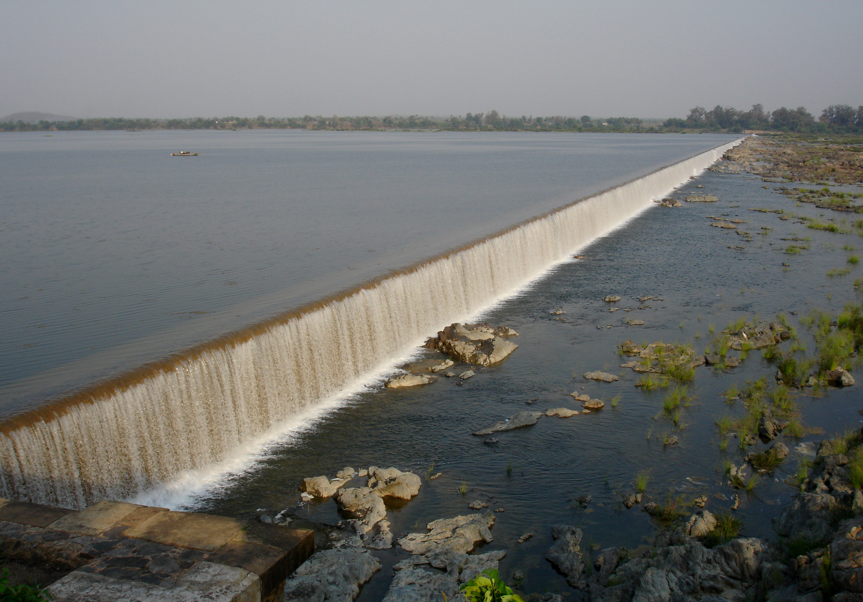 Barrage across River Godavari at Dummugudem in Bhadradri Kothagudem district, Telangana State